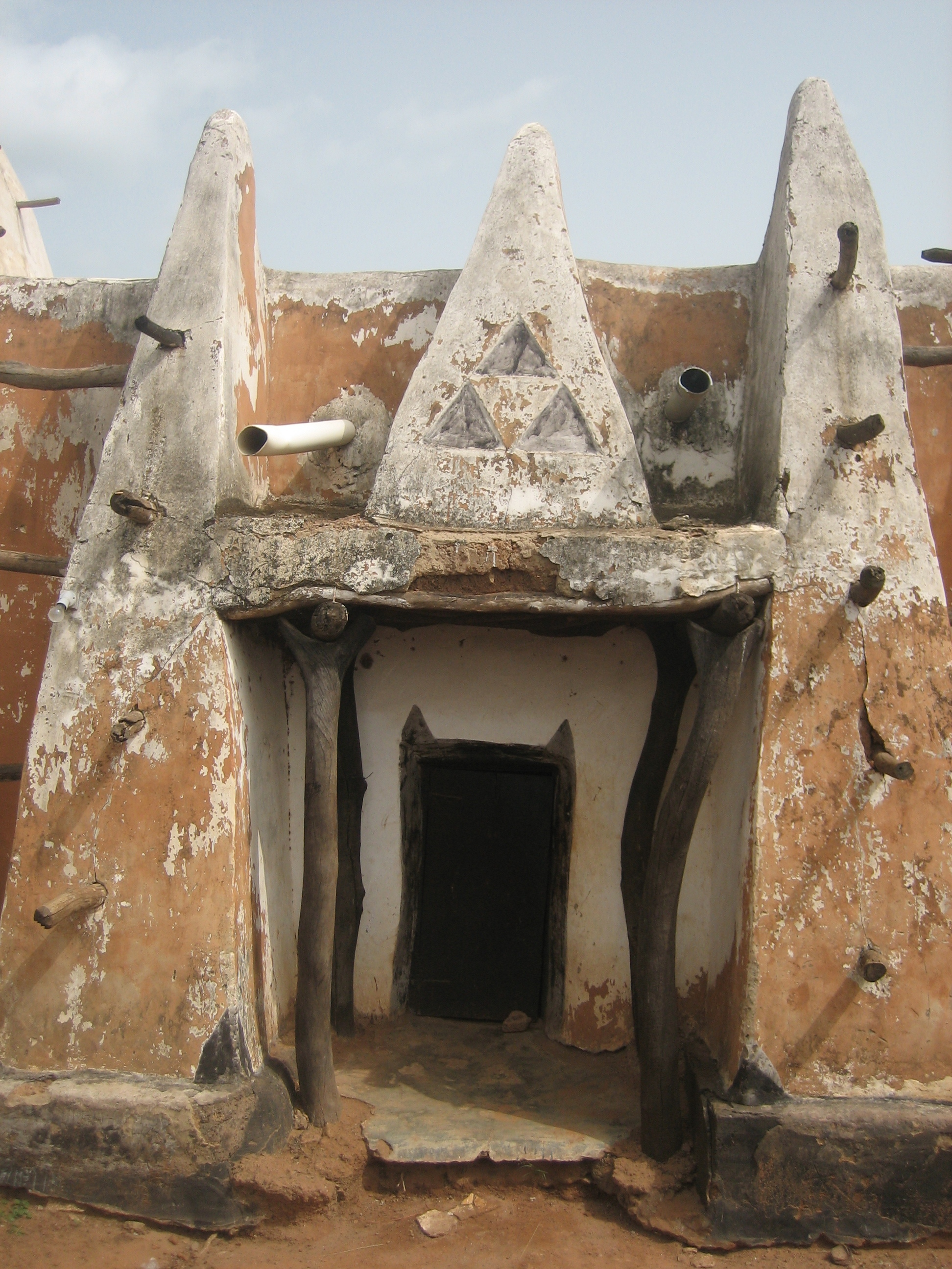 Larabanga mosque, entrance for women.